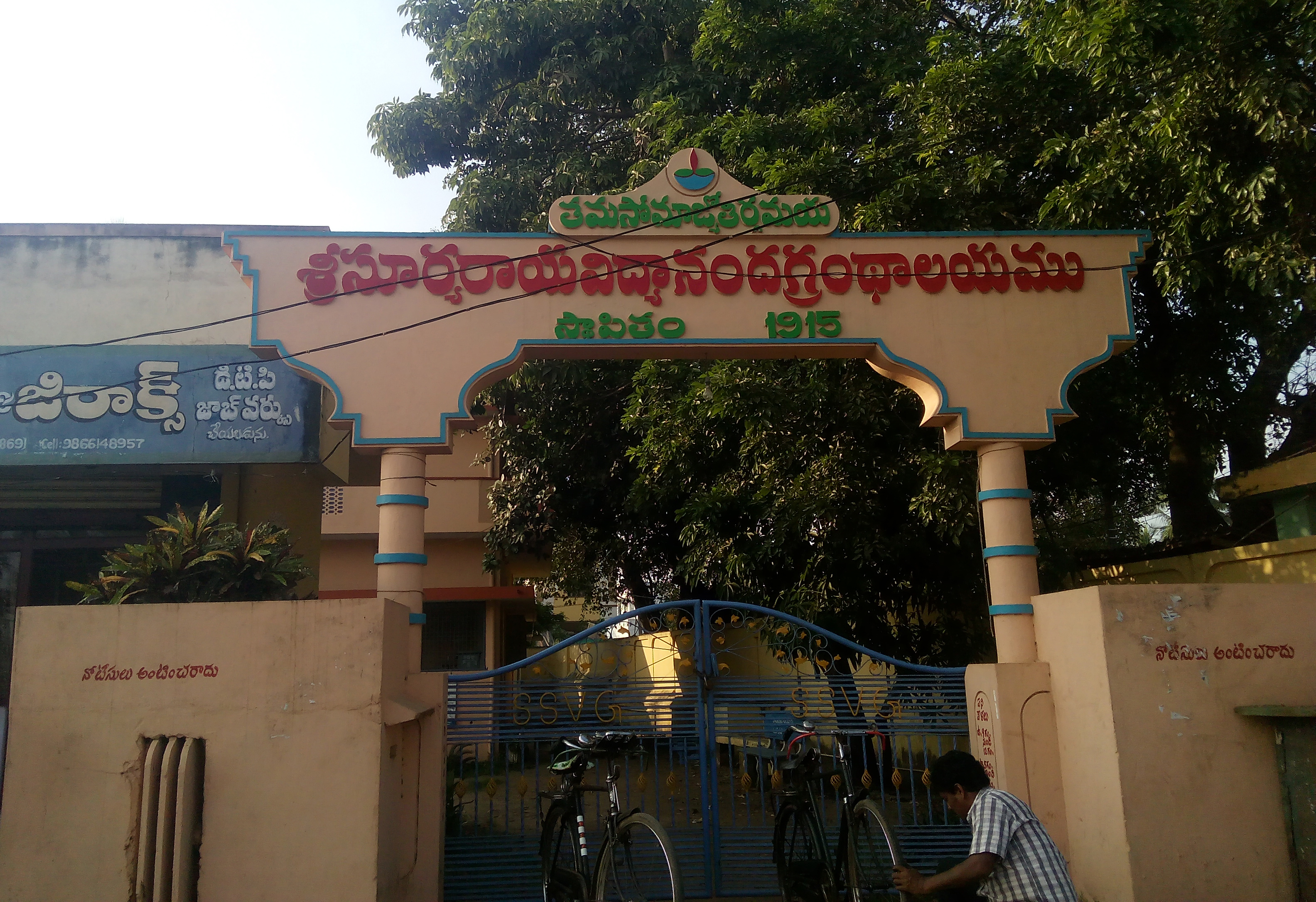 Suryaraya vidyananda Librery of A.P. Village Pithapuram